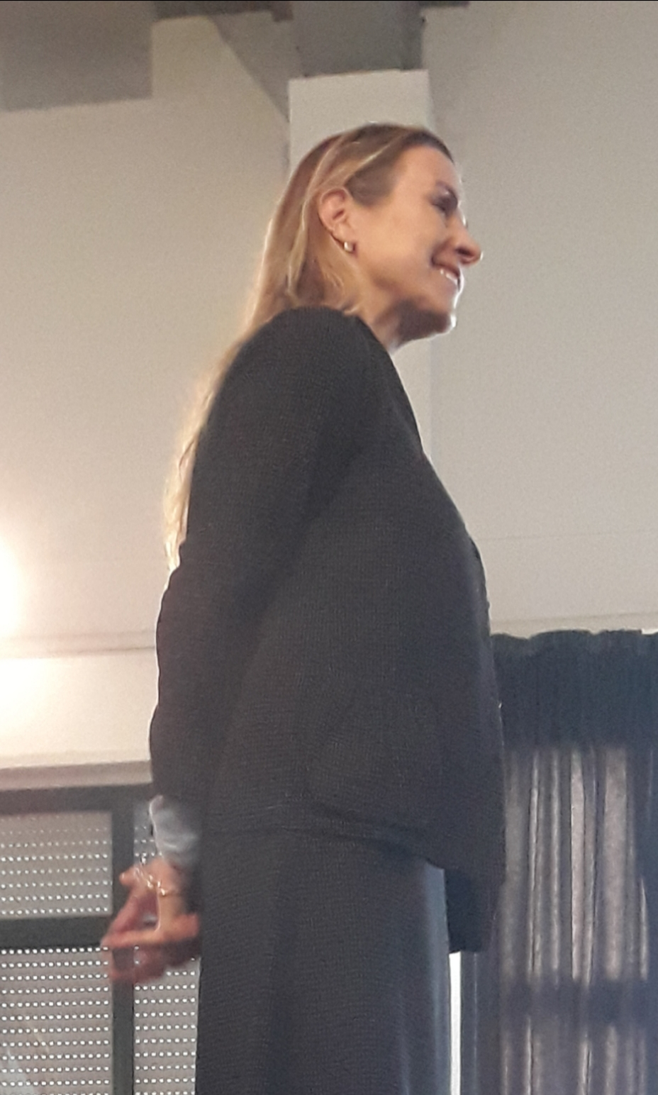 Zita Dazzi in 2020